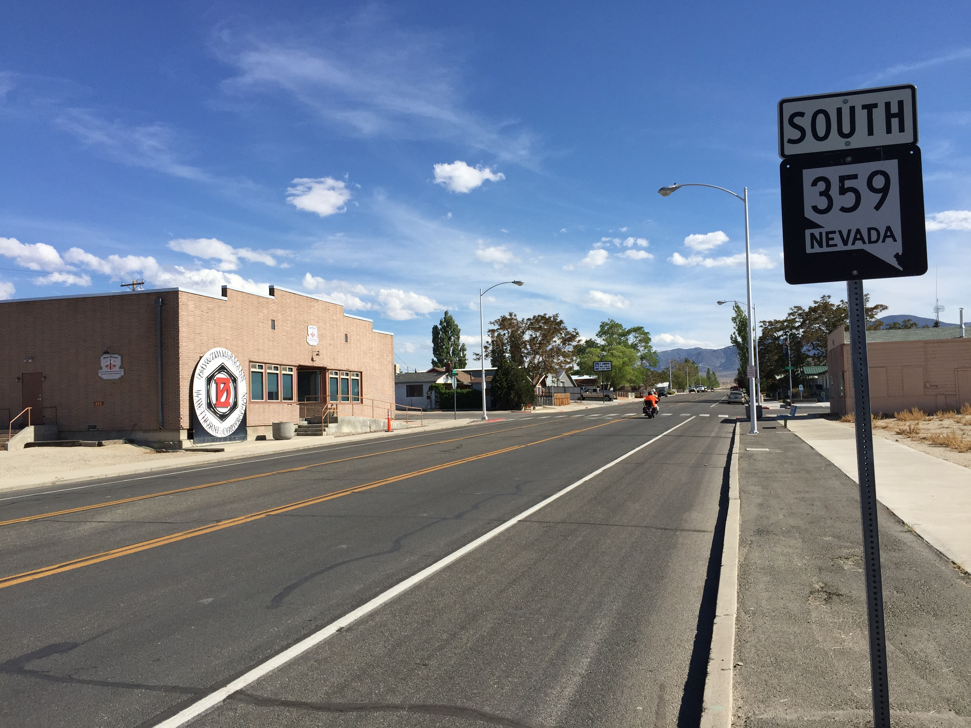 View south from the north end of Nevada State Route 359 (Pole Line Road) in Hawthorne, Nevada